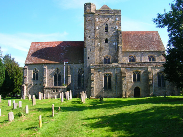 Parish church of the Assumption of the Blesséd Virgin Mary and St Nicholas, Etchingham, East Sussex, seen from the northwest